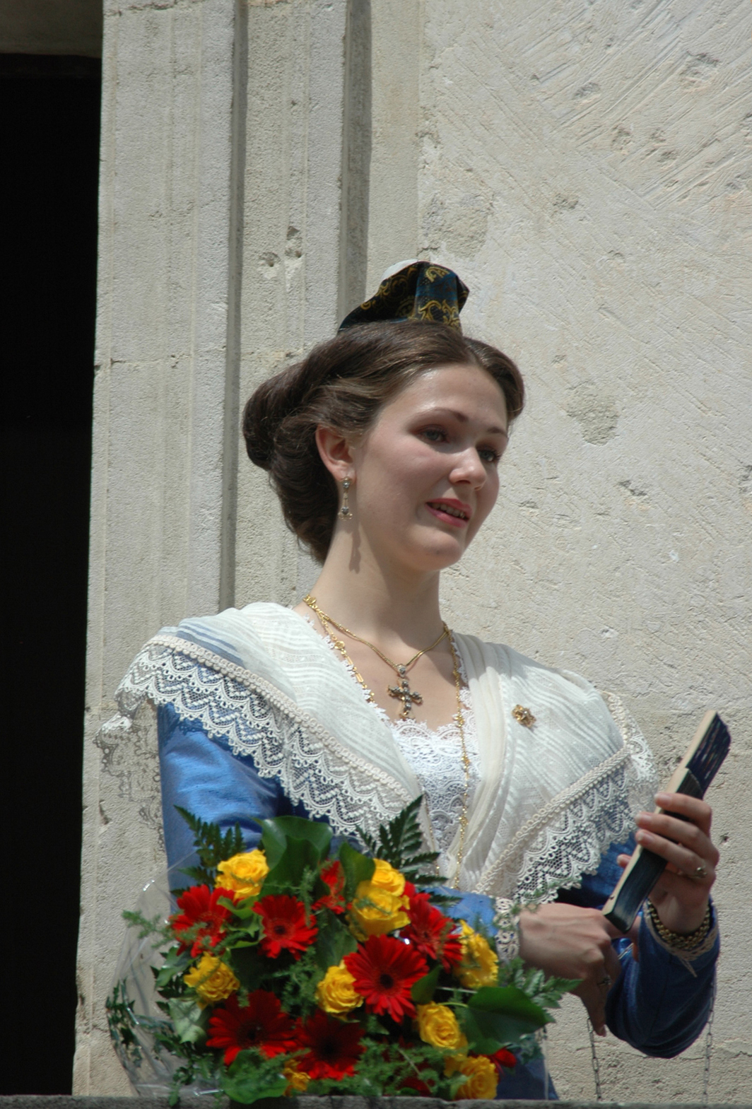 Nathalie CHAY, 19ème Reine d'Arles, was born in Tarascon [1]